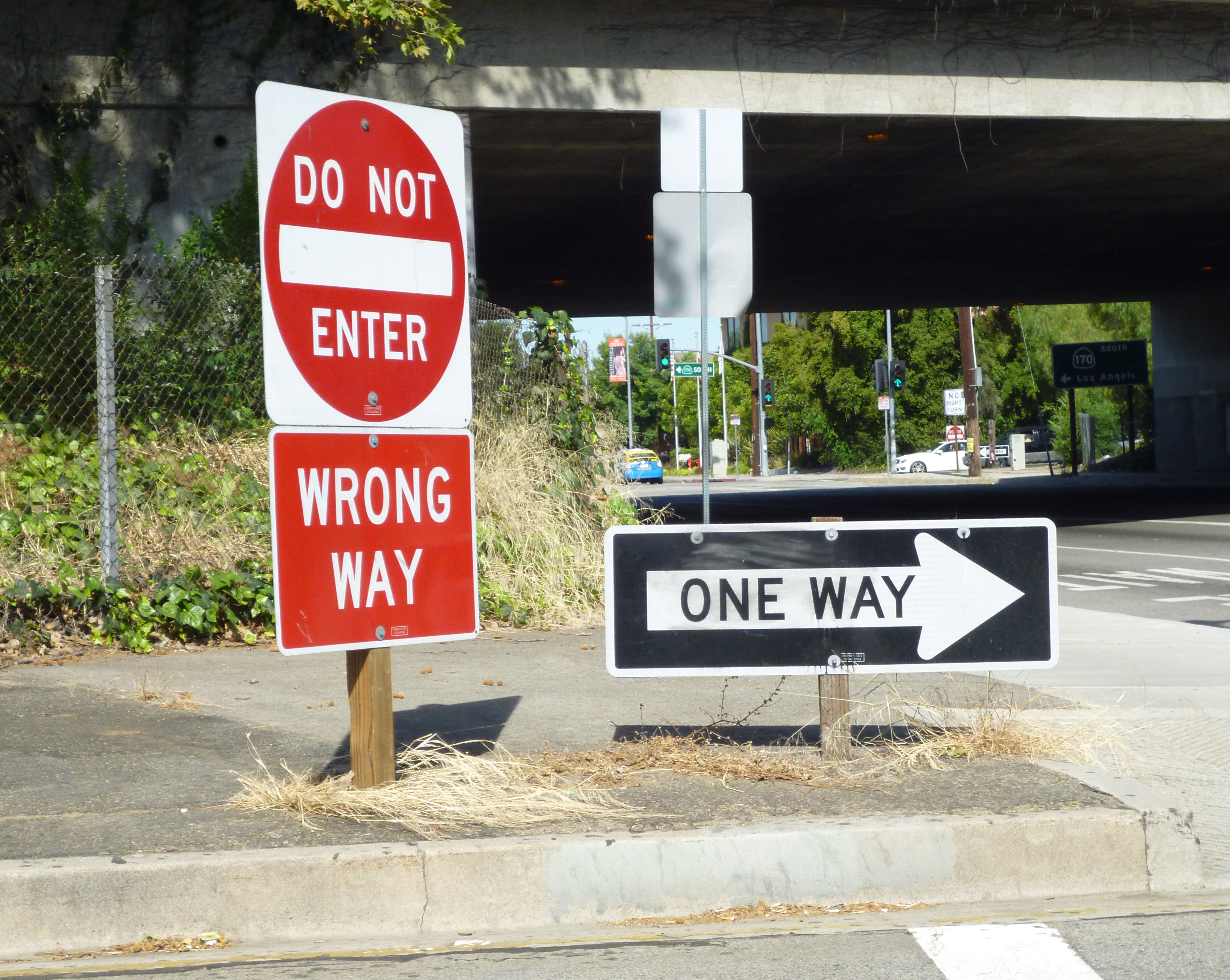 Wrong way and one-way traffic signs at the Magnolia Boulevard off-ramp from northbound Hollywood Freeway (State Route 170) in North Hollywood, California. This sign arrangement is installed by Caltrans on both sides of all California freeway off-ramps to discourage wrong-way drivers. Because this arrangement is not in compliance with the Manual on Uniform Traffic Control Devices, the U.S. federal government will not pay for installation of these signs, so Caltrans has to pay for them. Notice how the signs are clustered together and are placed close to the ground; this is a deliberate design decision to attract the attention of drunk drivers. Photographed on May 1, 2014 by user Coolcaesar. Category:Traffic signs